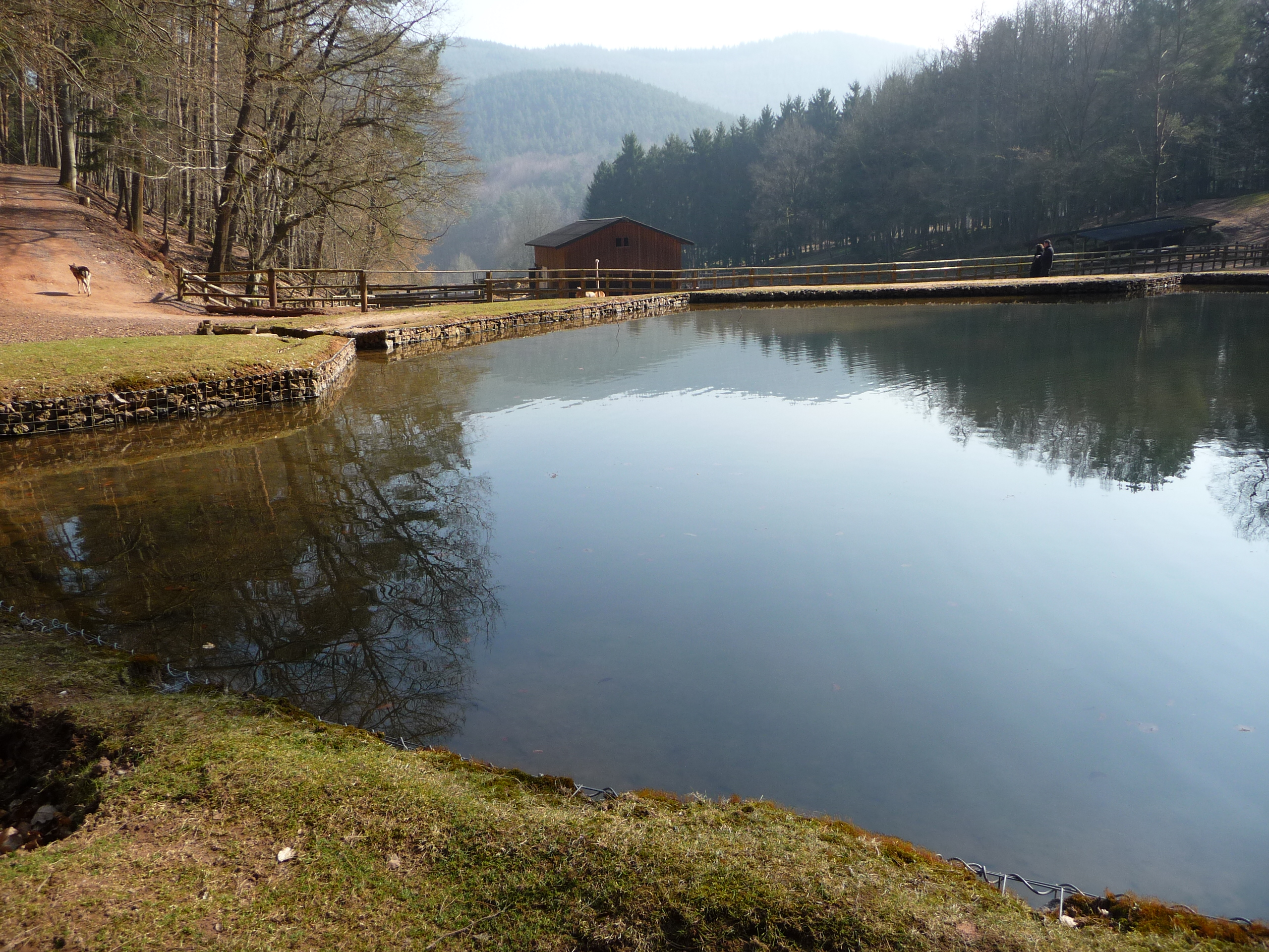 Wildpark Silz